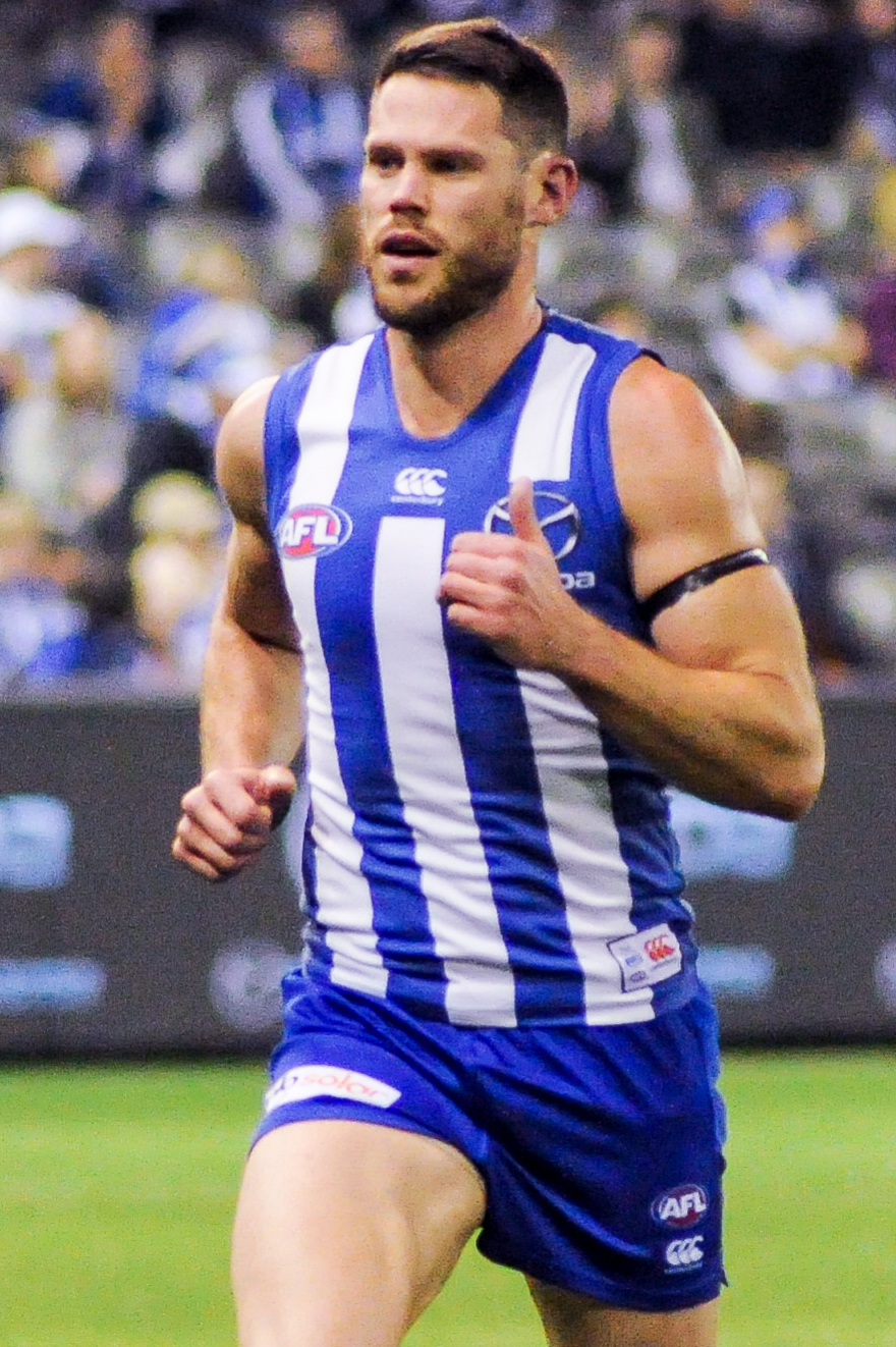 Sam Gibson during the AFL round thirteen match between North Melbourne and St Kilda on 16 June 2017 at Etihad Stadium in Melbourne, Victoria.